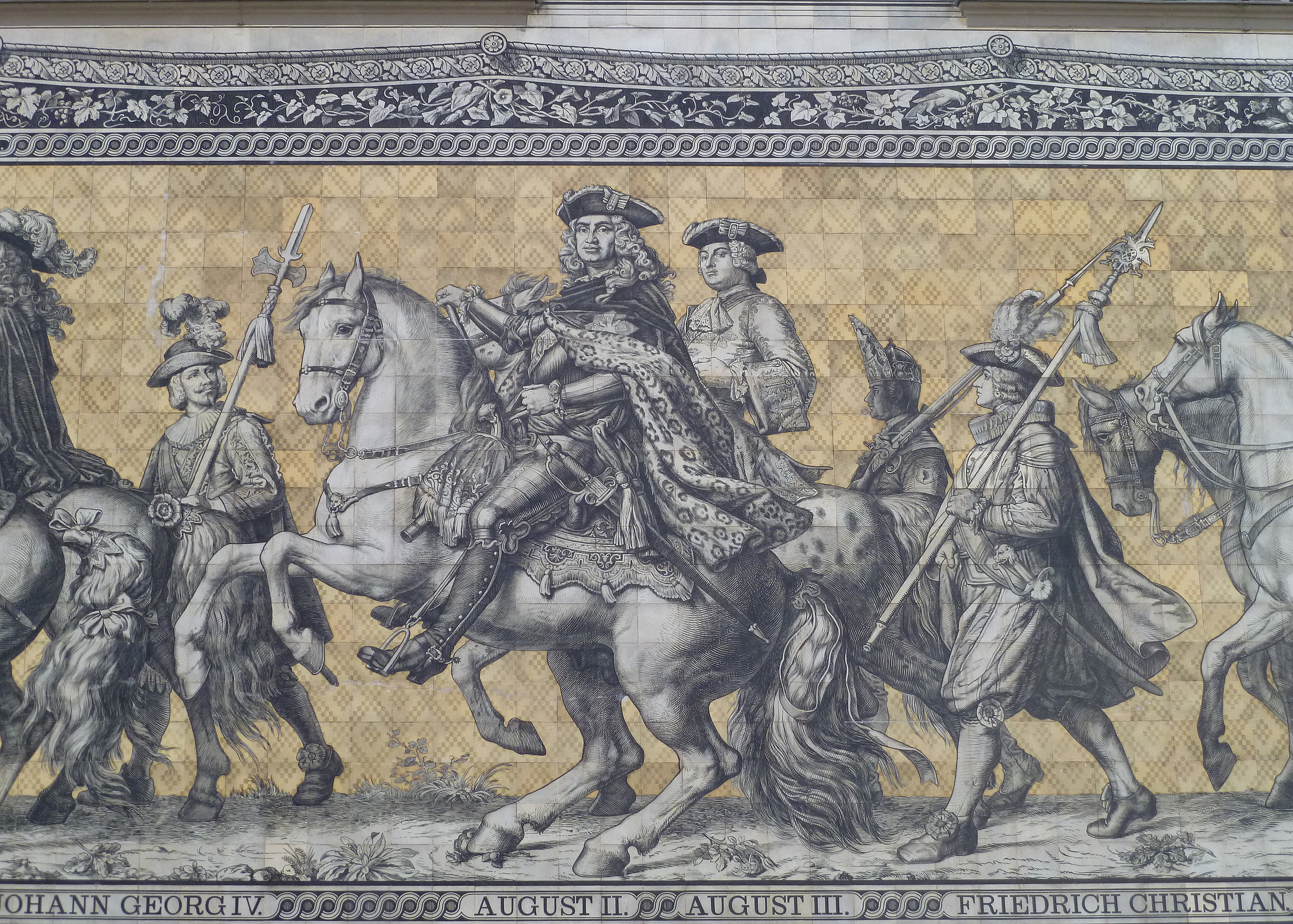 Augustus II the Strong (1694–1733) and Augustus III of Poland(1733–1763); Fürstenzug, Dresden, Germany